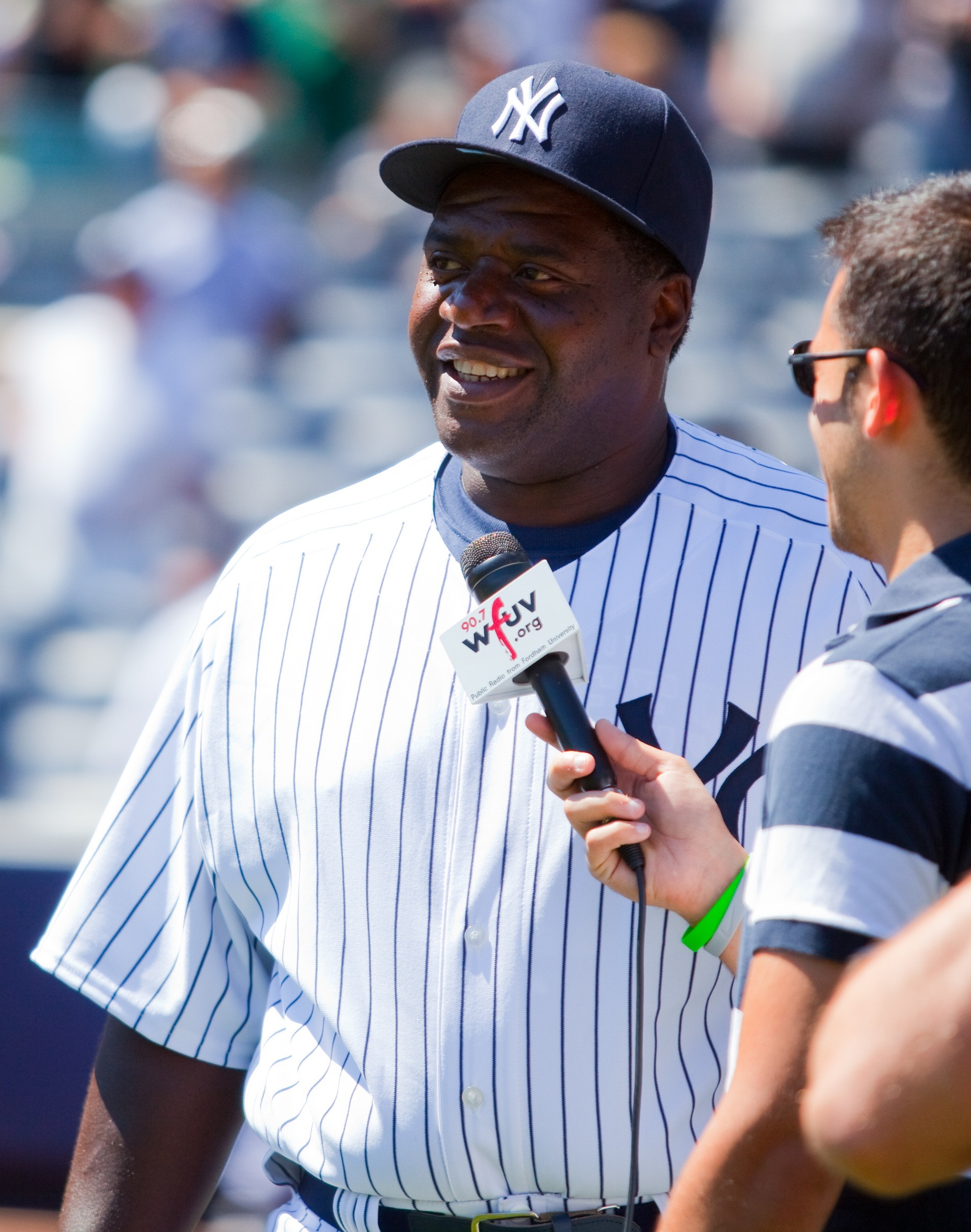 Yankee Stadium -- July 19, 2009 Former Yankee 3B Charlie Hayes returns to the organization as an Old Timer for the first time.